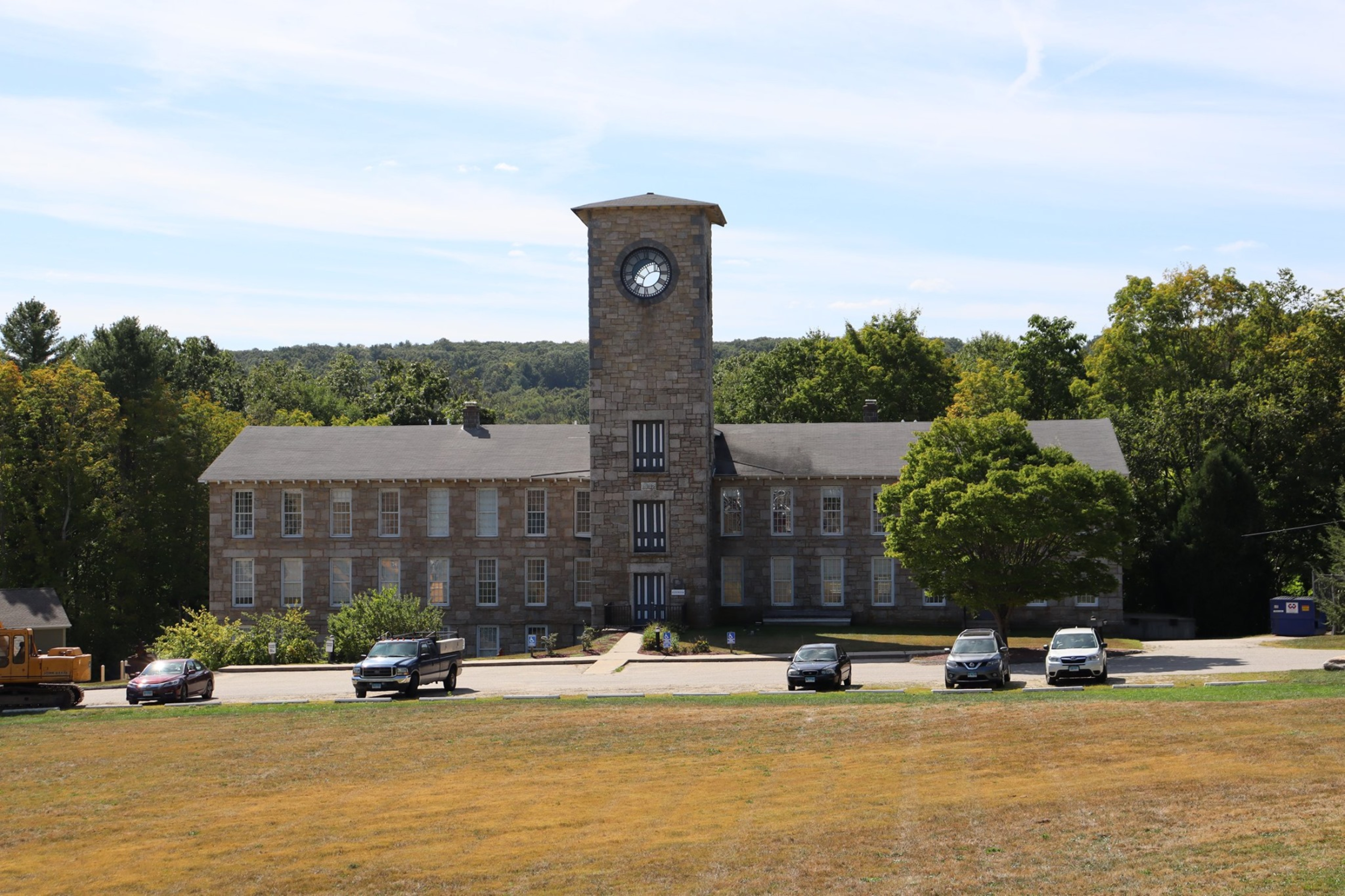 Kirby's Mill, Mansfield, Connectict. Part of the Mansfield Hollow Historic District.